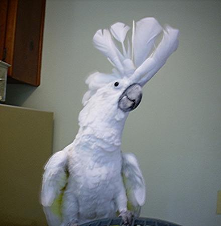 Cacatua alba has a white crest.